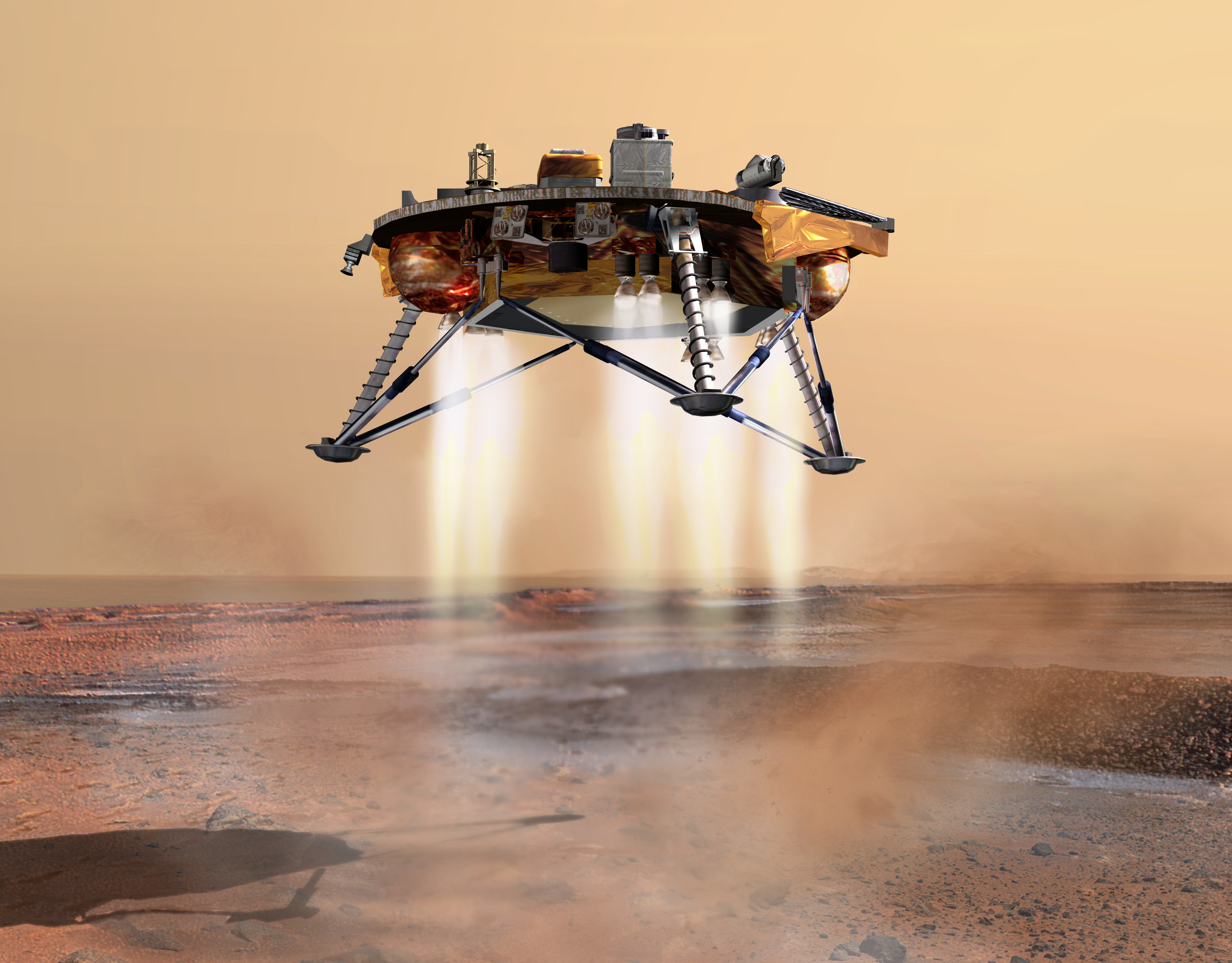 An artist's rendition of the Phoenix Mars probe during landing. The sophisticated landing system on Phoenix allows the spacecraft to touch down within 10 kilometres (6.2 mi) of the targeted landing area. Thrusters are started when the lander is 570 metres (1,870 ft) above the surface. The navigation system is capable of detecting and avoiding hazards on the surface of Mars.